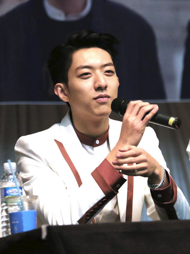 Lee Jung-shin at CNBLUE's mini-album Can't Stop fan sign event at the Airforce Club in the Yeongdeungpo District of Seoul, South Korea, on March 21, 2014.